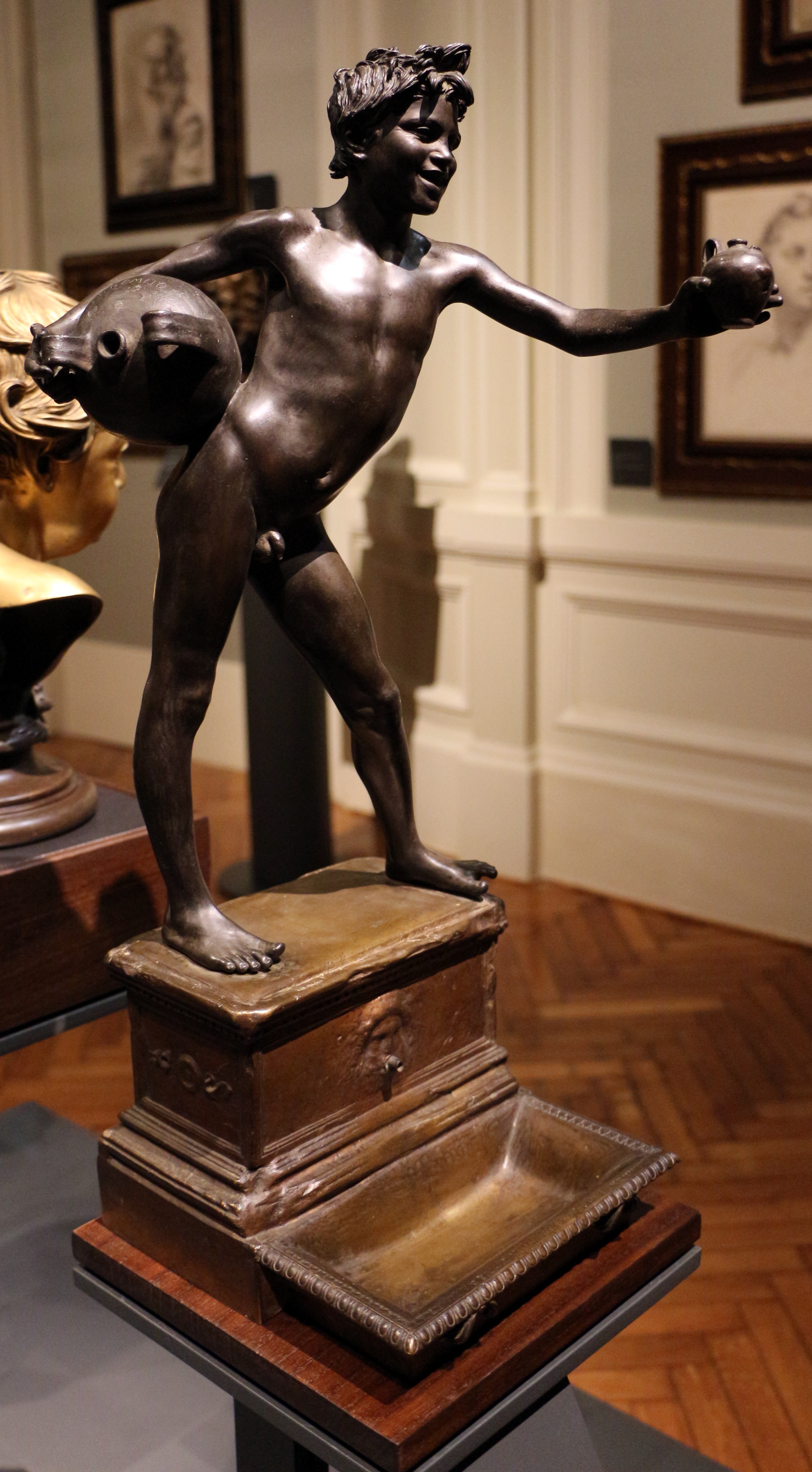 Sculptures in Palazzo Zevallos